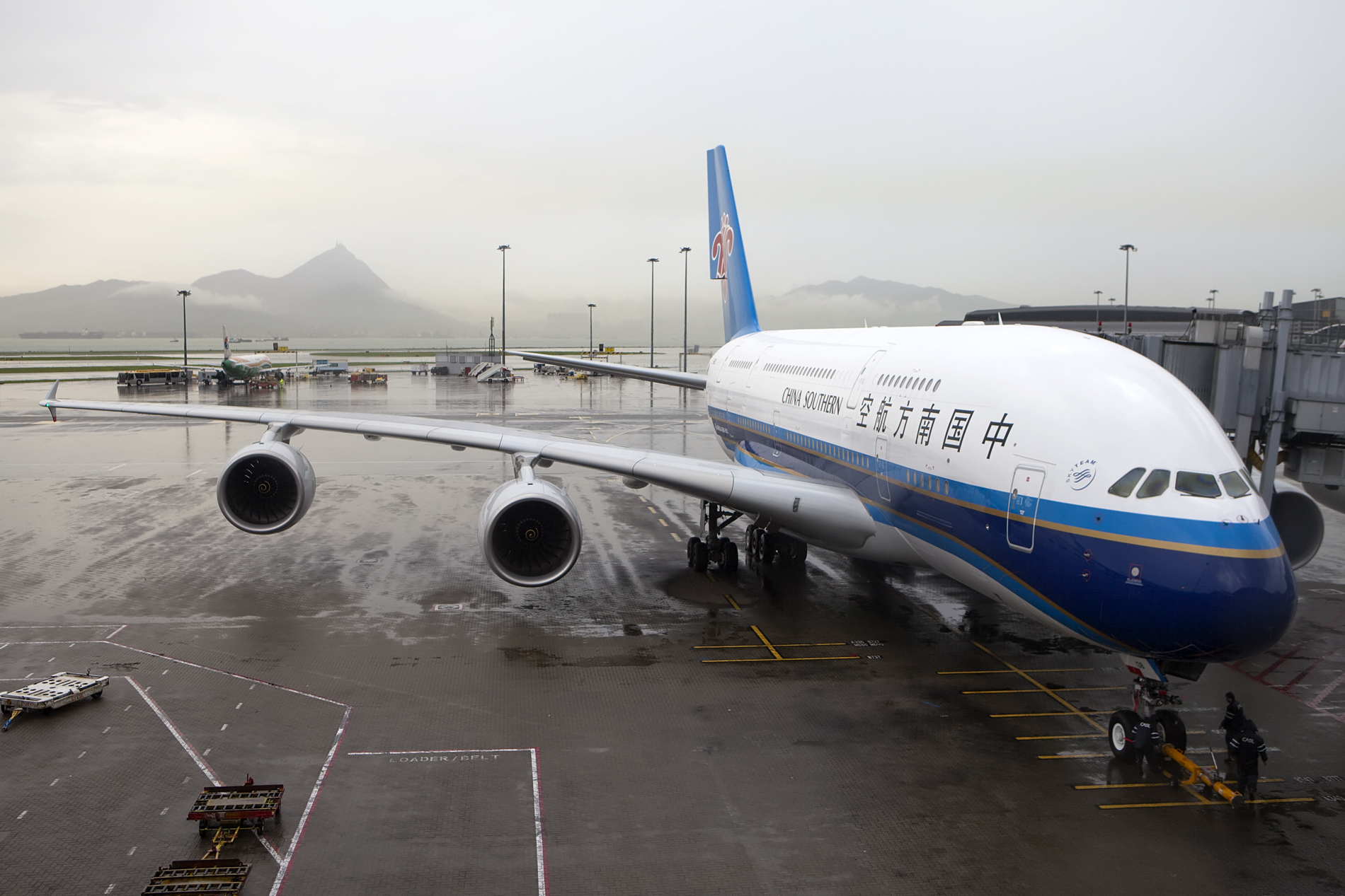 China Southern Airlines Airbus A380 at Hong Kong International Airport